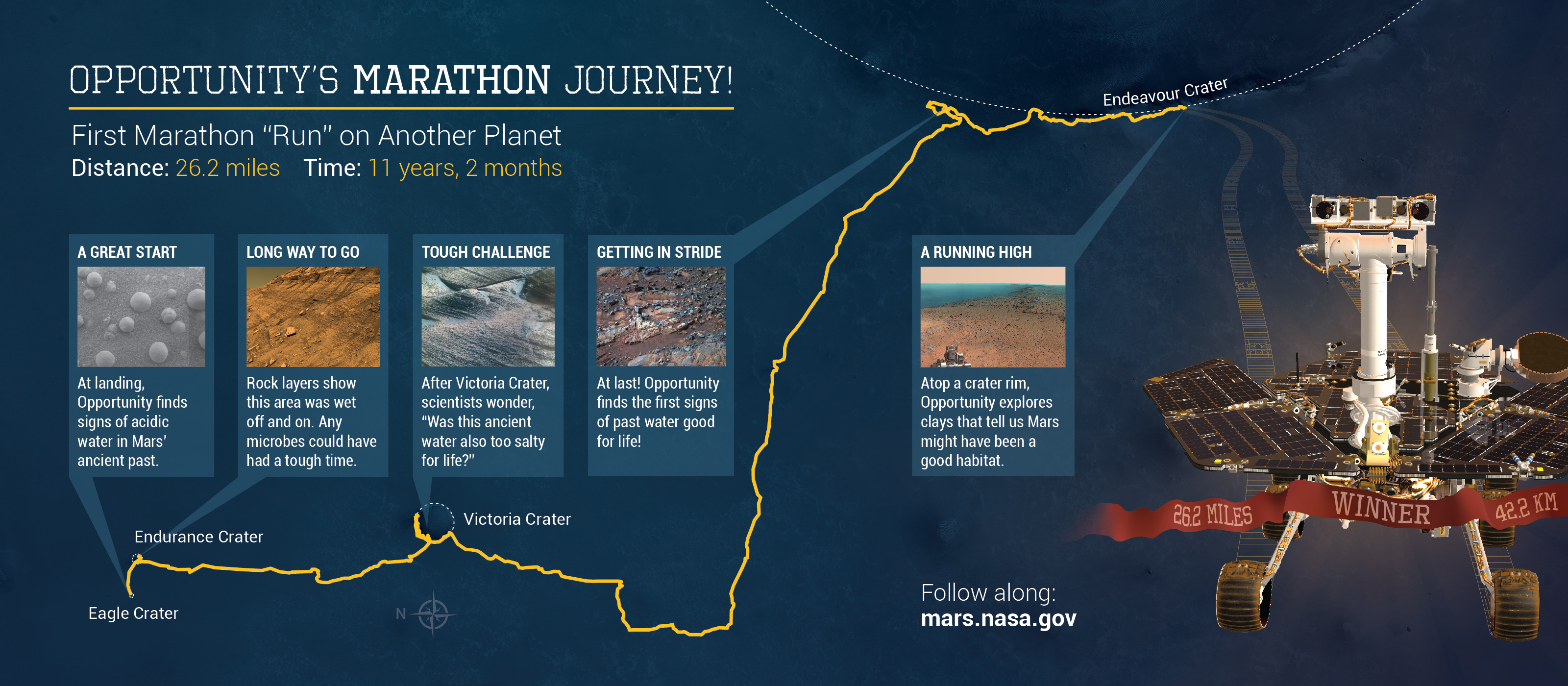 NASA's Opportunity Rover's Mars Marathon